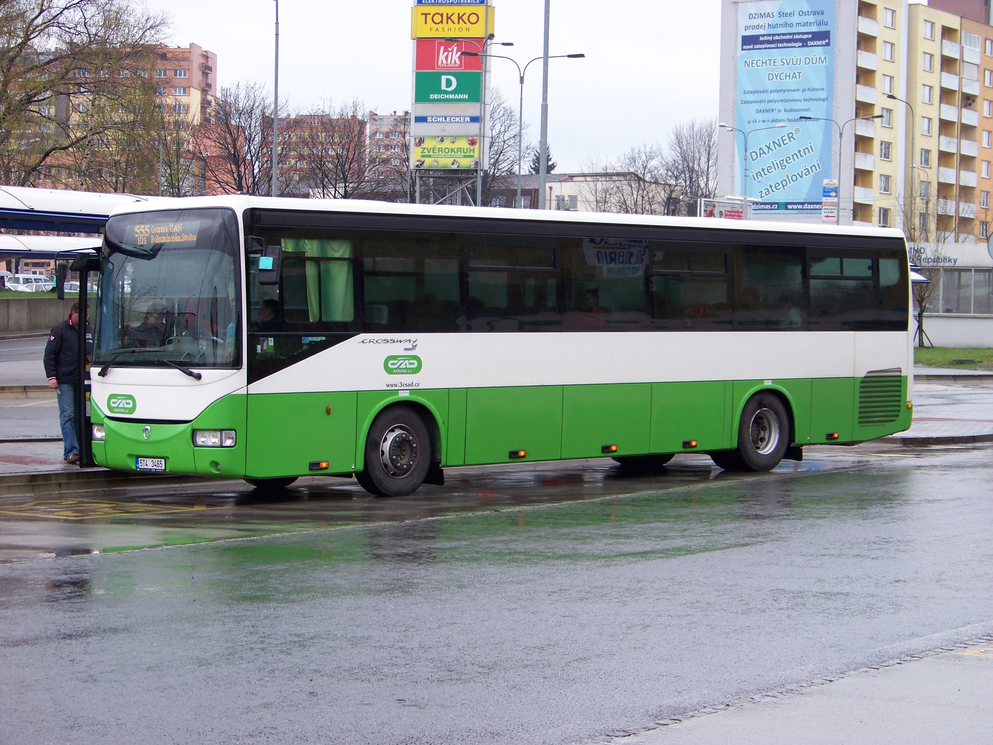 Ostrava-Moravská Ostrava, Moravian-Silesian Region, the Czech Republic. Vítkovická street, the Central Bus Station, a bus Irisbus Crossway of ČSAD Karviná.